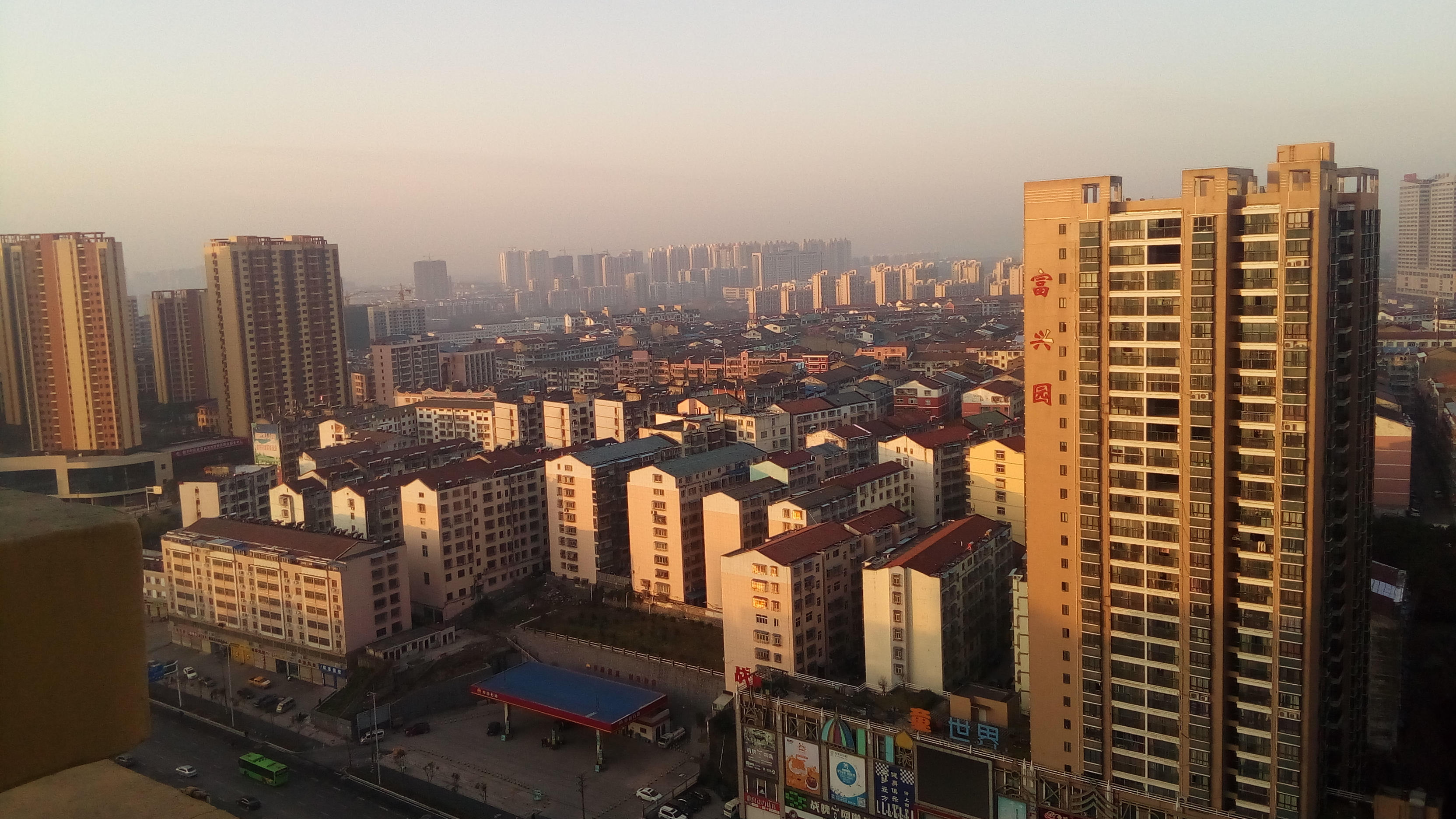 Overview over parts of Jingmen shortly after sunrise